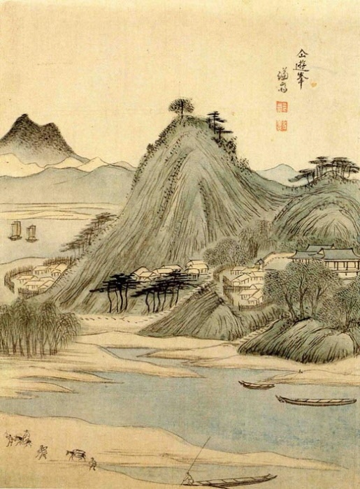 Seonyubong